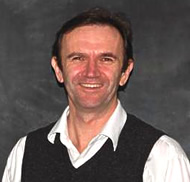 Portrait of Mark Chignell